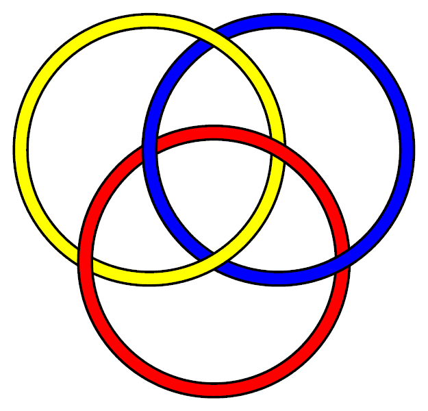 Borromean rings (knot) -- no two circles are directly linked, but the three are collectively interlinked. Cutting one ring frees the other two. In terms of knot theory, a "Brunnian link". For a version of the Borromean rings depicted in triangular form, see Image:Valknut-Symbol-borromean.png . For extended Borromean patterns, see Image:Borromean-cross.png / Image:Borromean-cross.svg and Image:Borromean-chainmail-tile.png . For other (more complex) three-component Brunnian links which are not equivalent to the Borromean rings, see Image:Brunnian-3-not-Borromean.png and Image:Three-triang-18crossings-Brunnian.png .